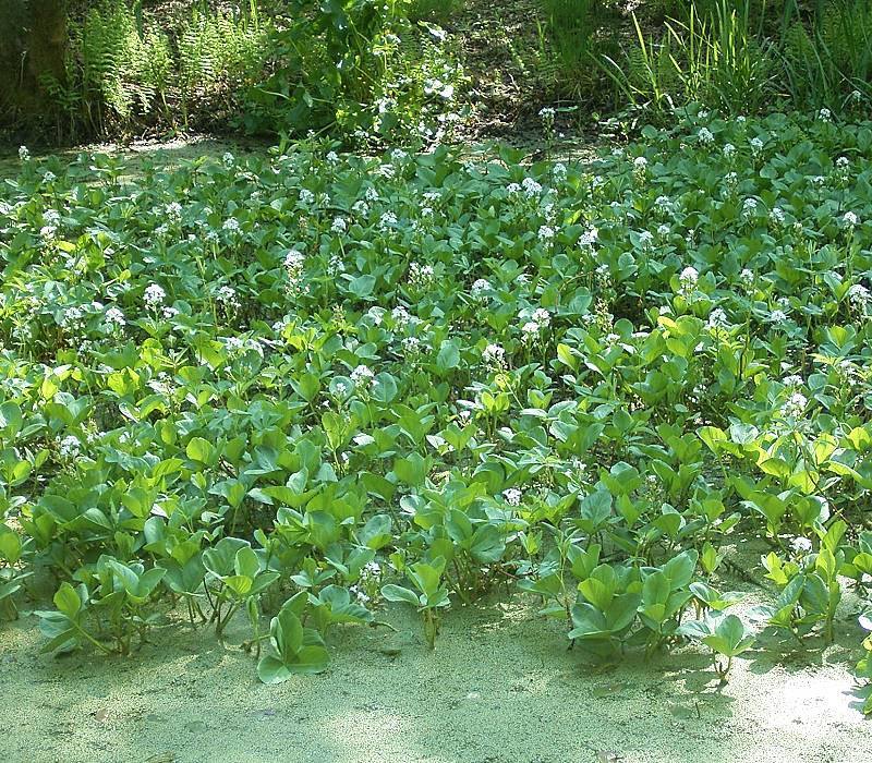 Menyanthes trifoliata